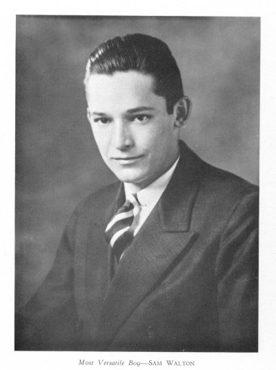 Sam Walton voted most versatile boy in the David H. Hickman High School yearbook in 1936. The yearbook (The Cresset) was published with no copyright notice and is now in the public domain of the United States.